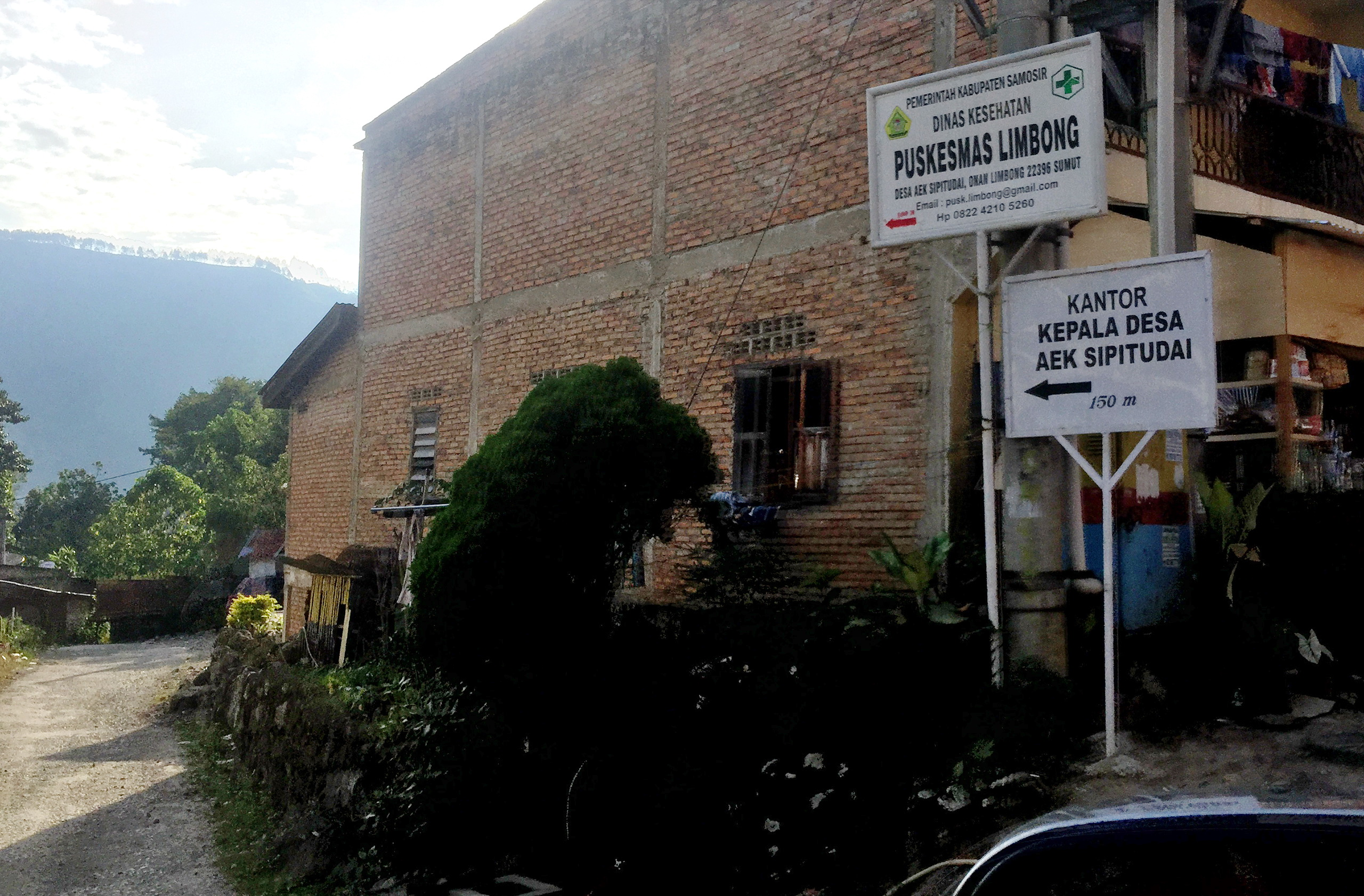 office of Aek Sipitudai, Sianjur Mulamula, Samosir